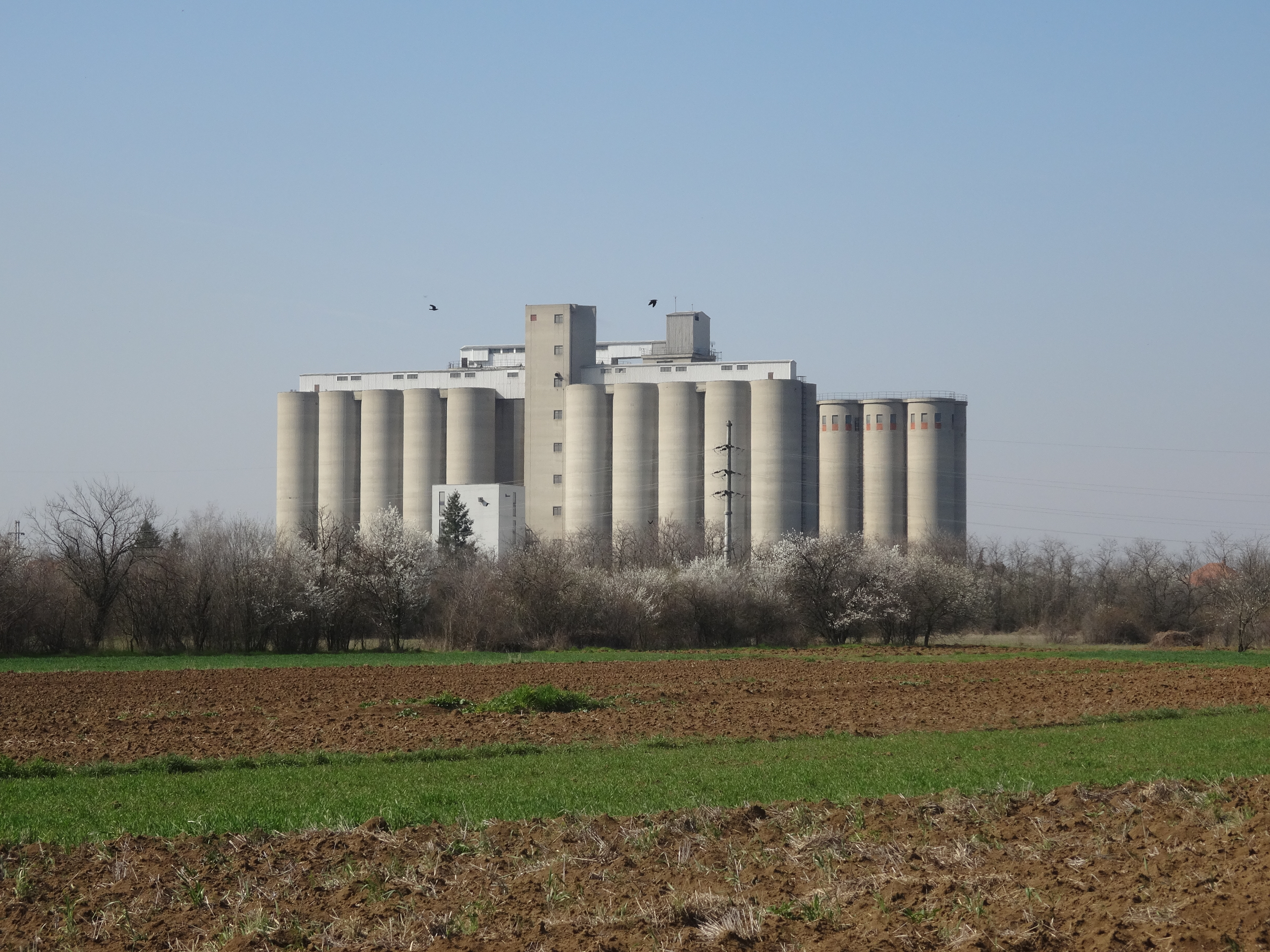 Ratari, siloСрпски (ћирилица): Ратари, силос